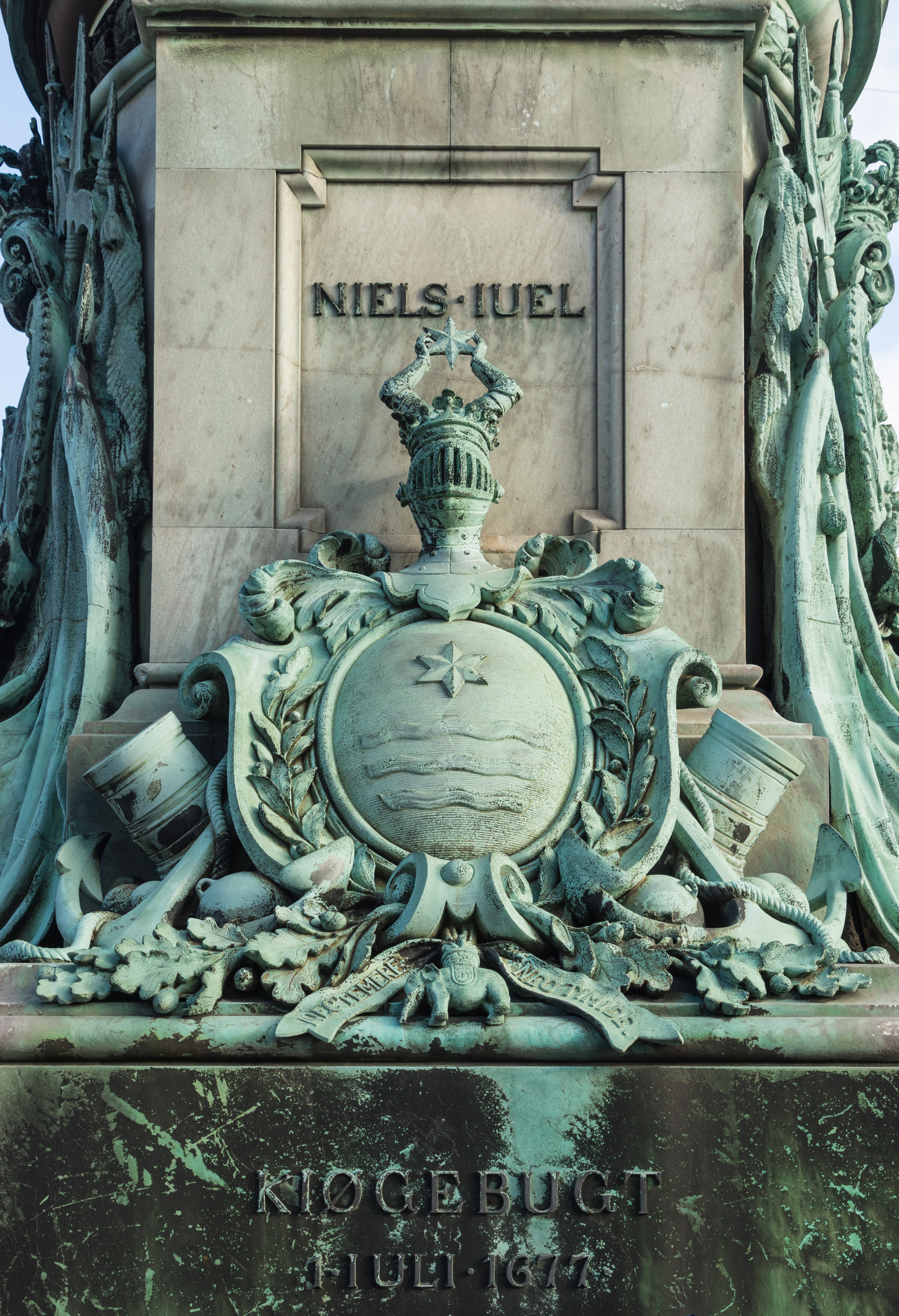 Pedestal of the statue of Niels Juel, with coats of arms, in Copenhagen, Denmark.